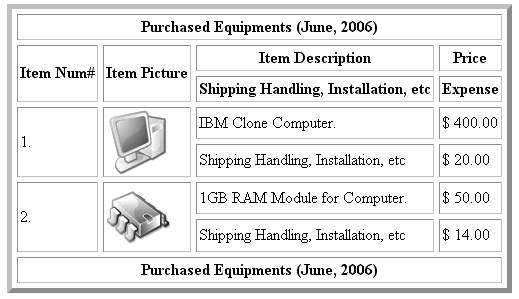 HTML Table's appearance by using default parameters and values